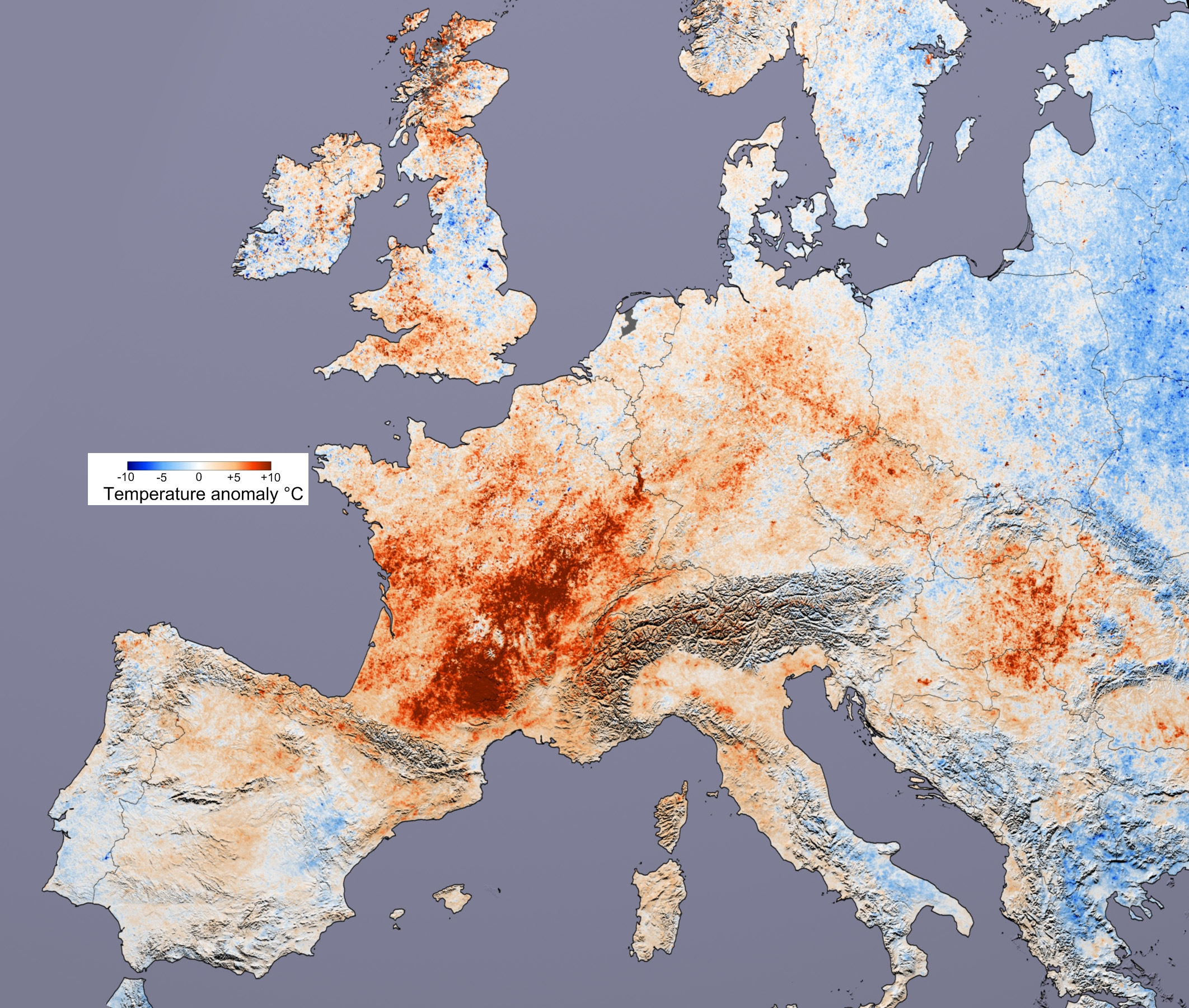 2003 heat wave temperature variations relative to July 2001 temperatures in Europe. "Compared to July 2001, temperatures in July 2003 were sizzling. This image shows the differences in day time land surface temperatures collected in the two years by the Moderate Resolution Imaging Spectroradiometer (MODIS) on NASA’s Terra satellite." (quoted from [1]) "TERRA MODIS derived land surface temperature data. The difference in land surface temperature is calculated by subtracting the average of all cloud free data during 2000, 2001, 2002 and 2004 from the ones in measured in 2003, covering the date range of July 20 - August 20." (quoted from [2])